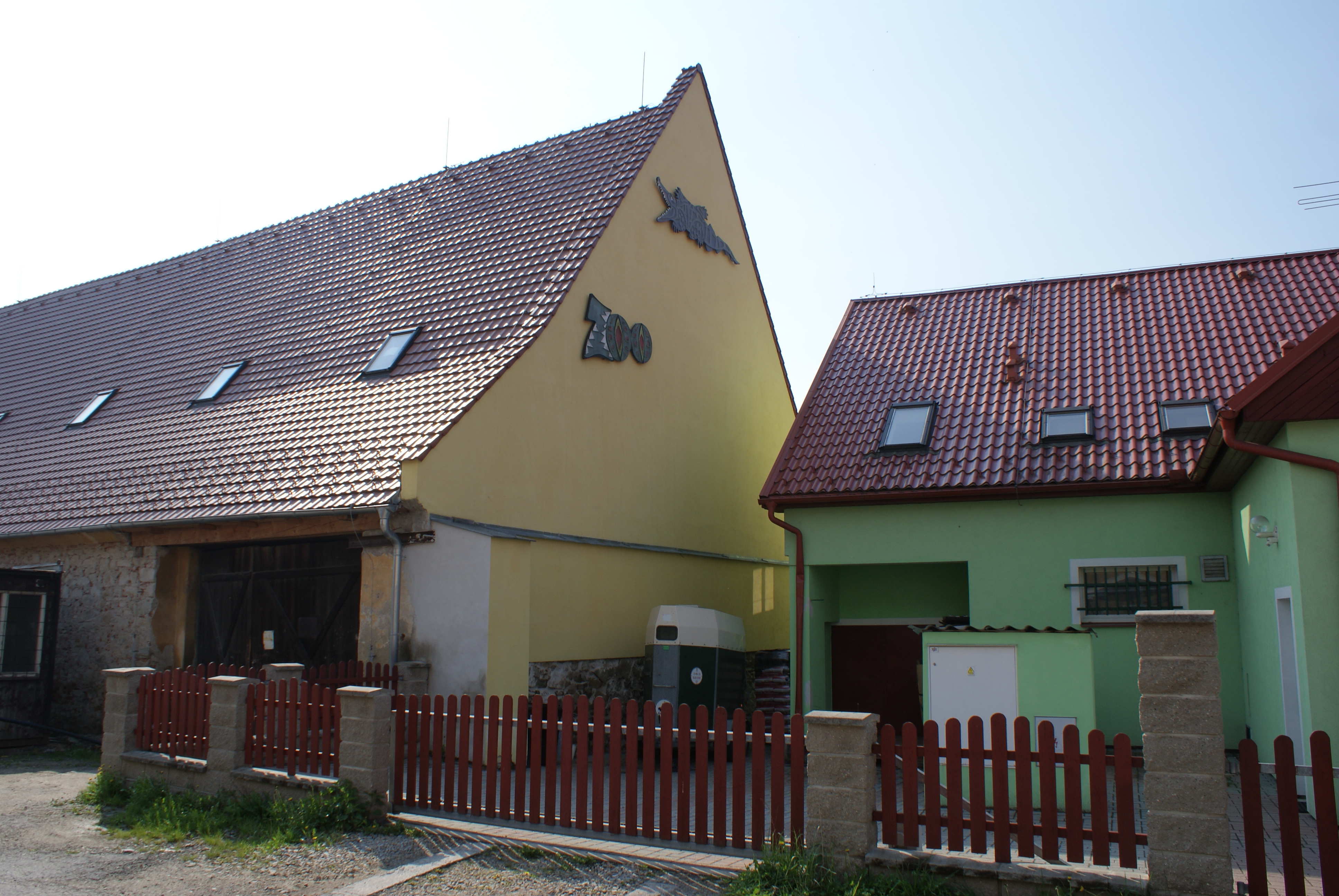 Crocodile Zoo in Protivín, Czech Republic.